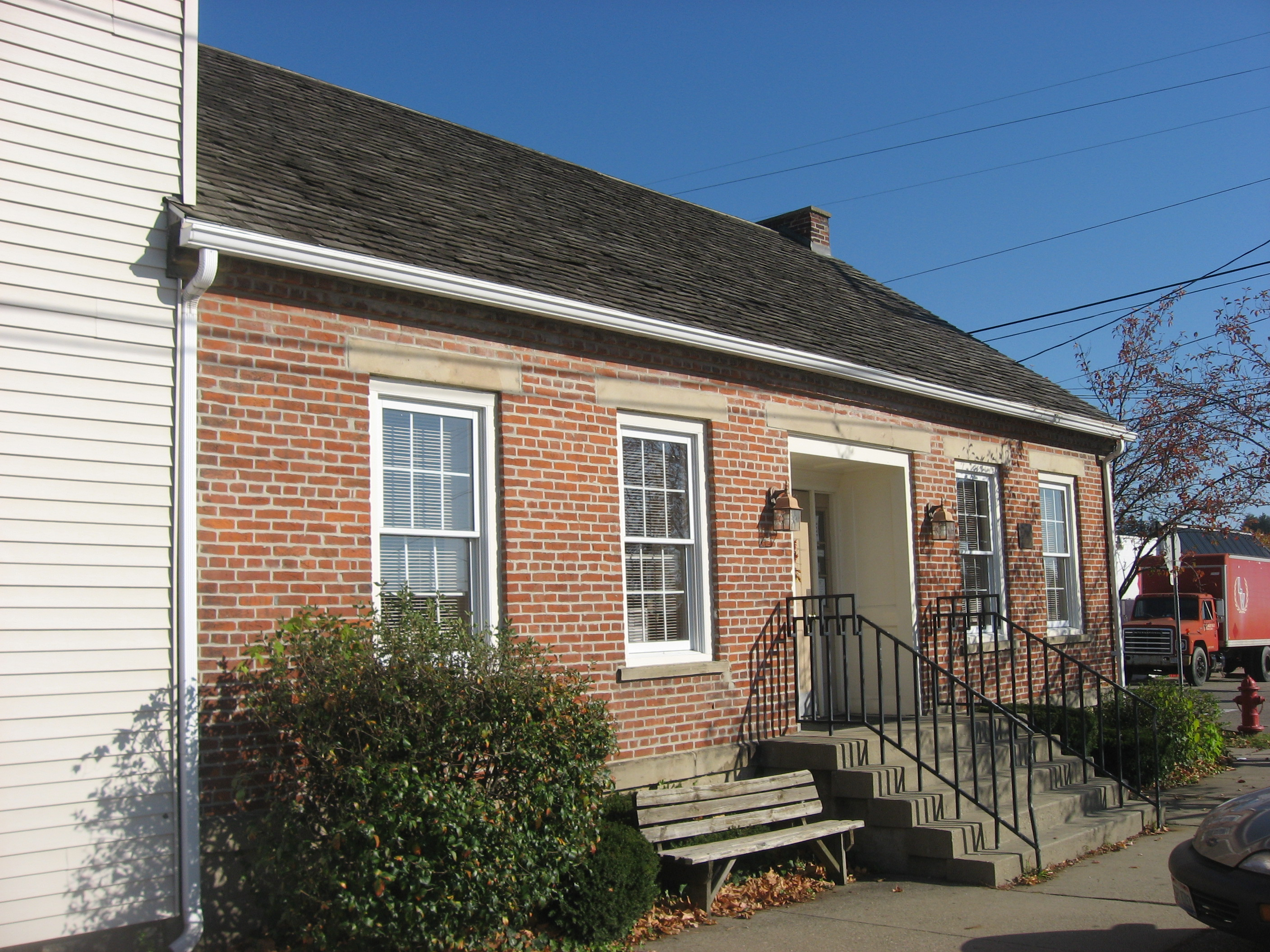 Front of the John Reaves House (now the Clark Memorial Branch Library), located at 102 W. Main Street (State Routes 342/800) in Freeport, Ohio, United States. Built in 1820, it is listed on the National Register of Historic Places.